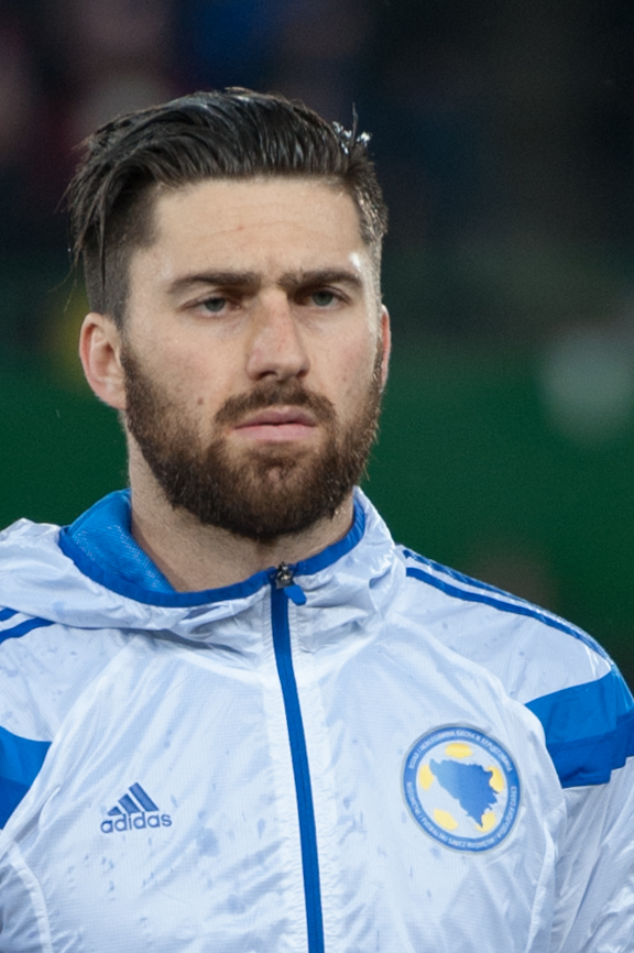 International friendly Austria vs. Bosnia and Herzegovina, 2015-03-31, Vienna